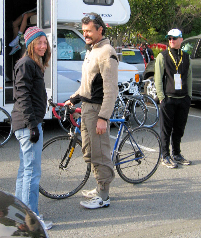 Watching the race. Interviewed on The Fredcast.